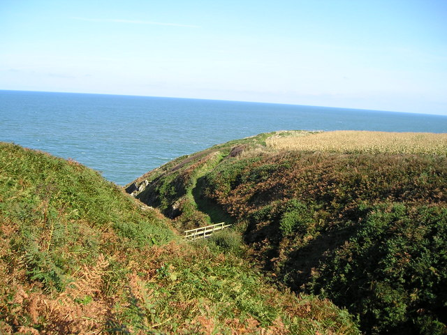 New coast path There have been negotiations with the owners of the land above the cliffs along this stretch of coast to provide a new path. A notice explained that it is a "Tir Gofal" permissive access path. The crop in the field on the right is maize and some of it has been damaged and turned brown by the salt-laden gales we have had recently.